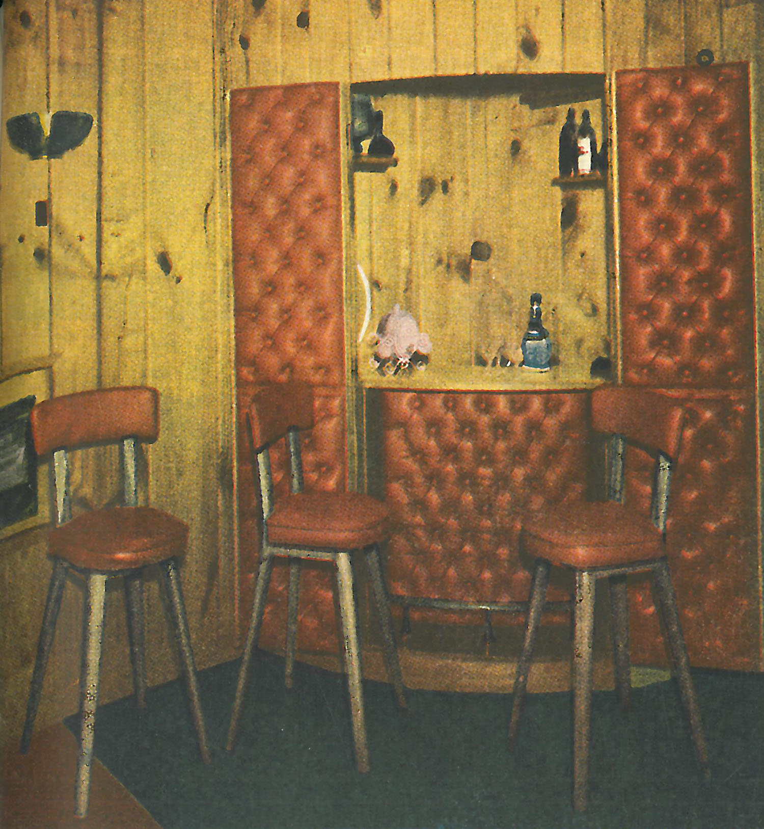 Jacobson Residence